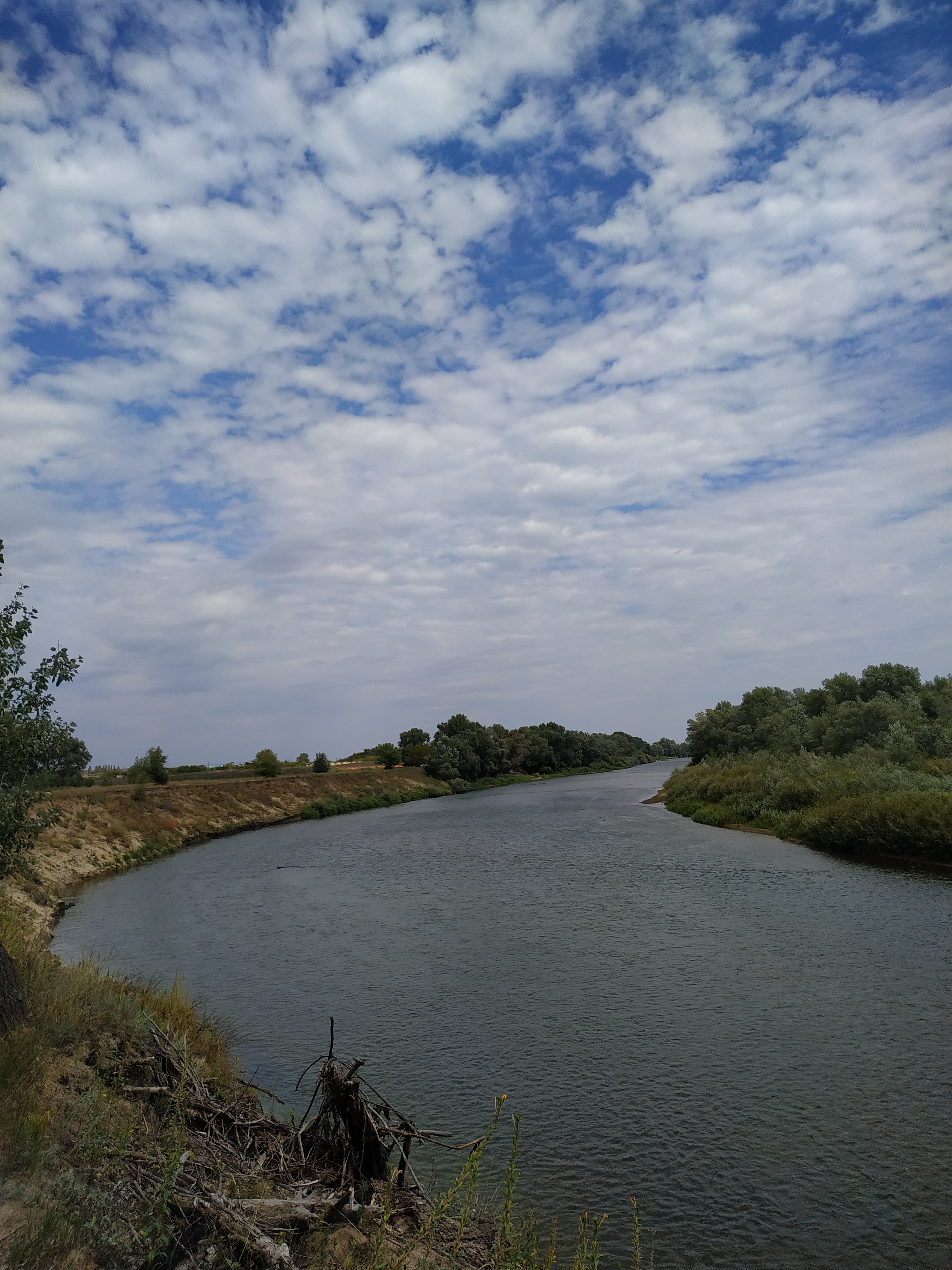 Medveditsa river, Volgograd region